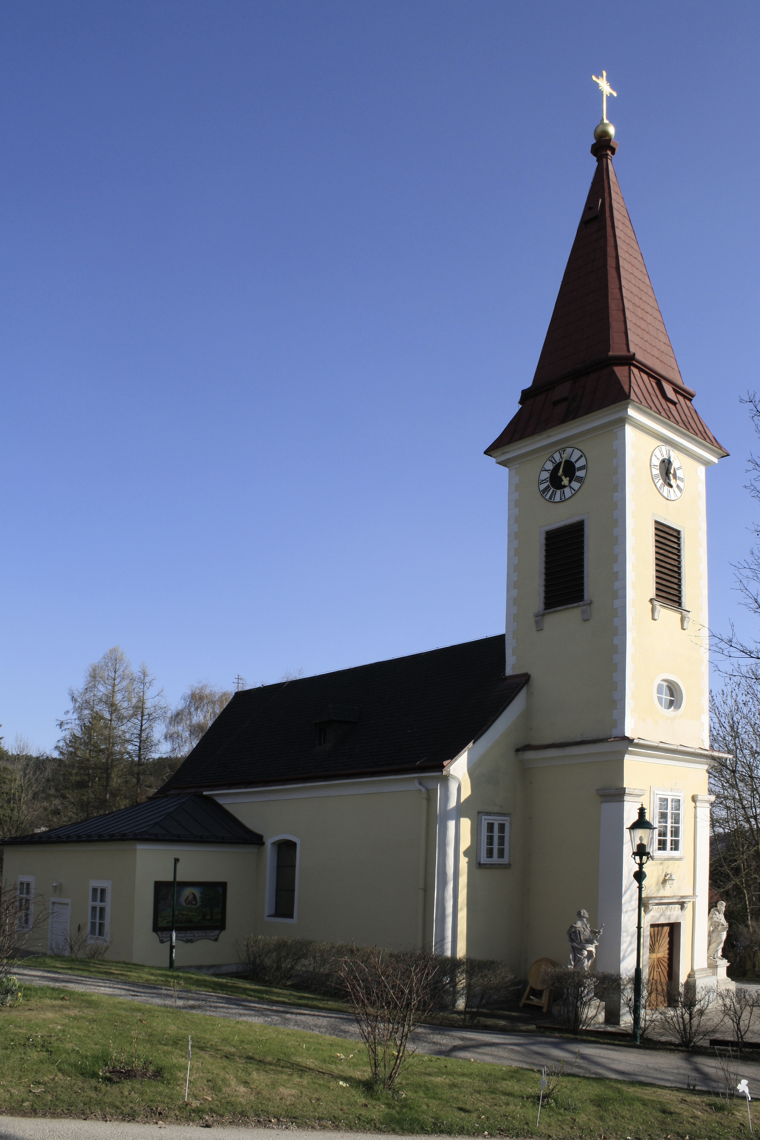 Church of Sulz im Wienerwald Wienerwald in Niederösterreich